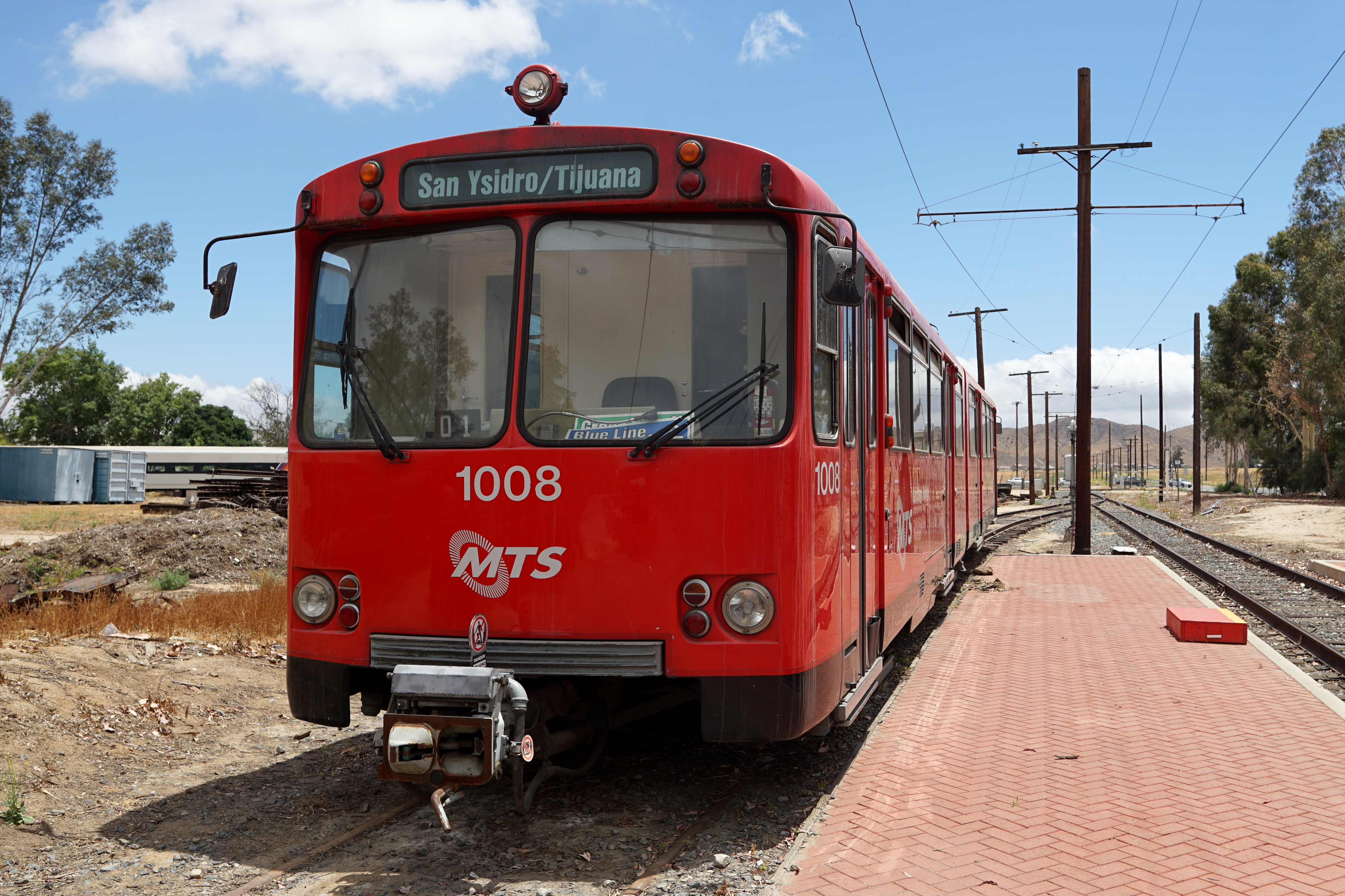 Siemens-DUEWAG U2 light rail in the Orange Empire Railway Museum in Perris, CA